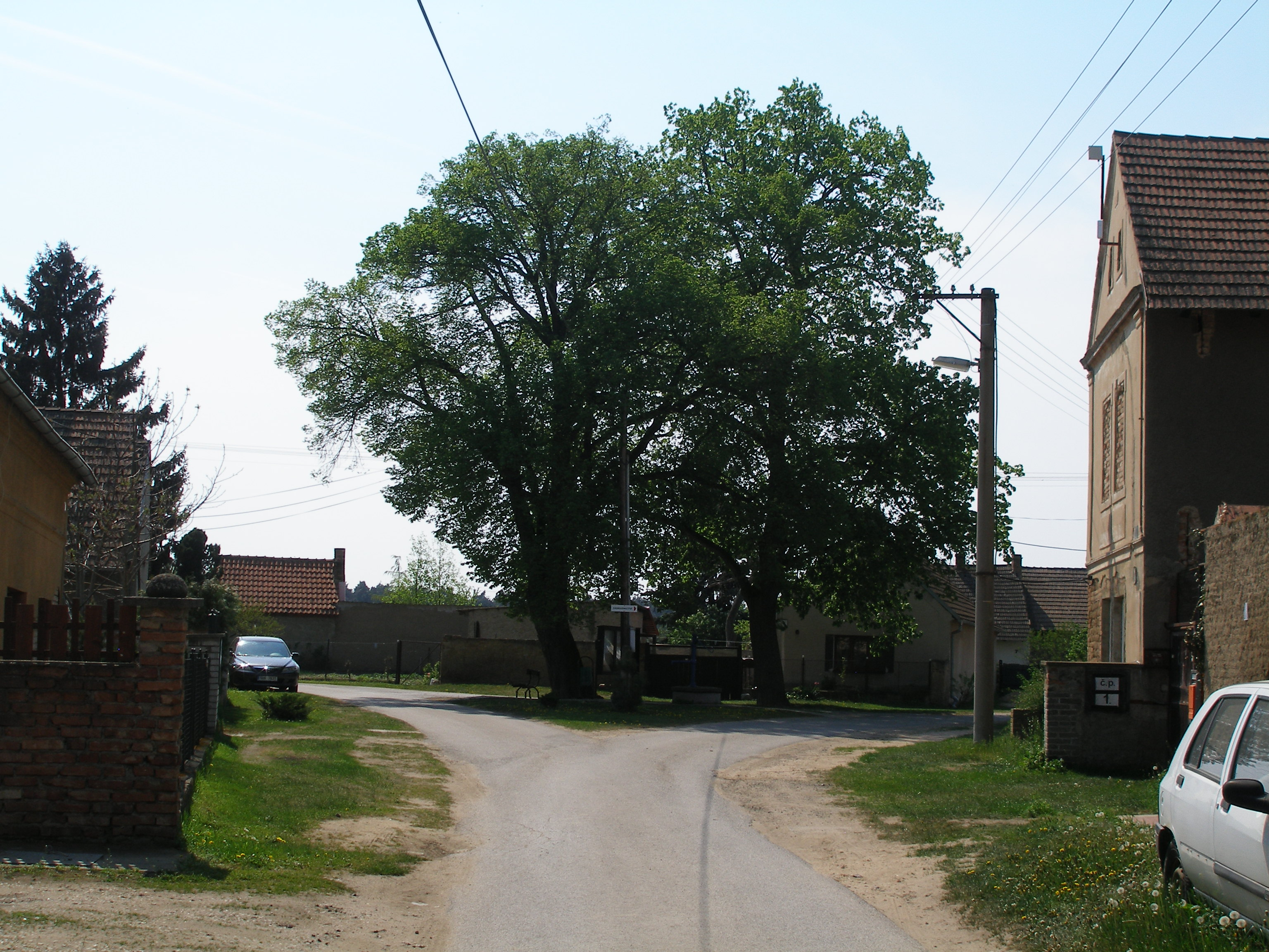 Trees in the village square in Kozlovice.